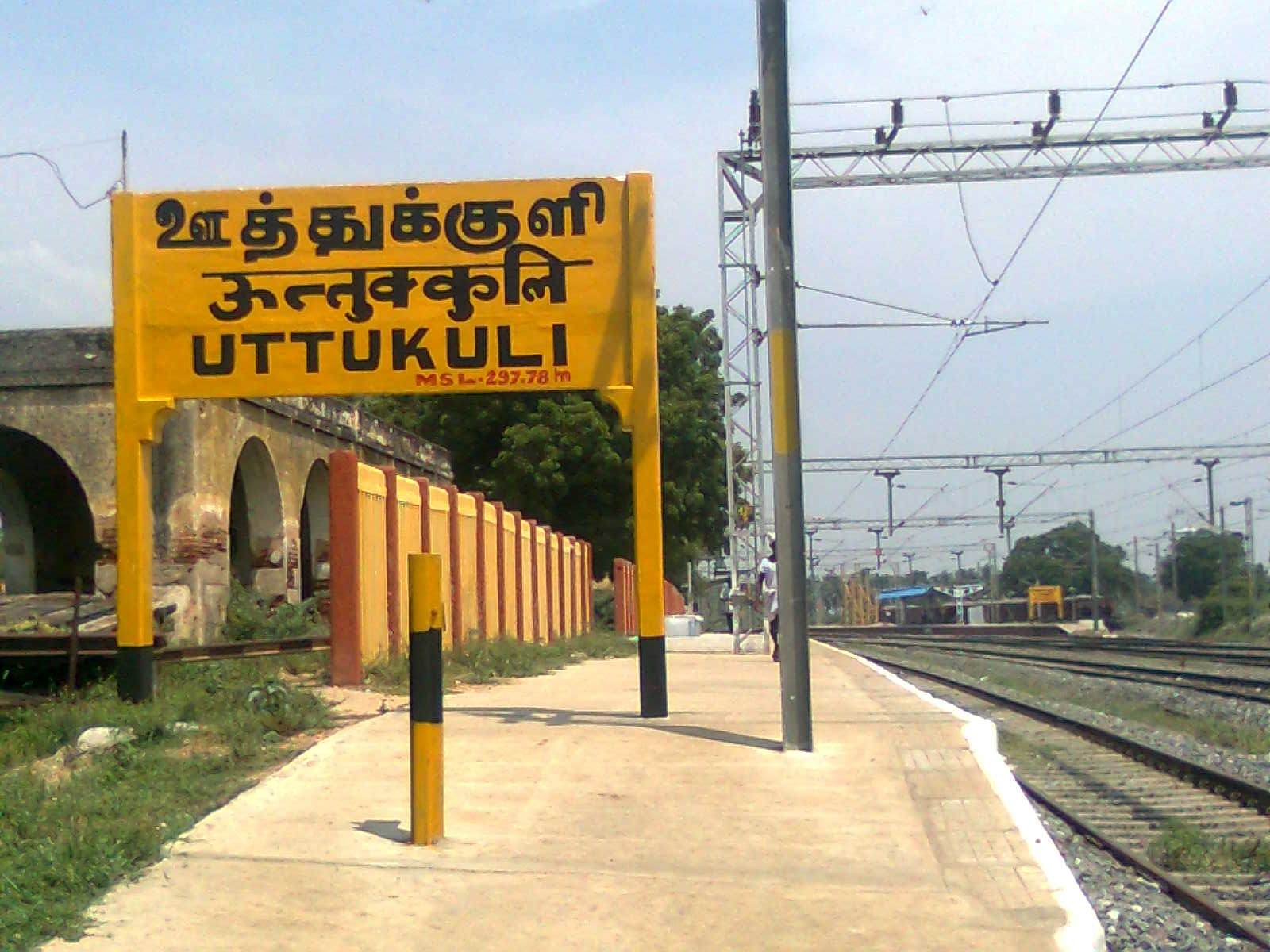 side view of uttukuli railway station